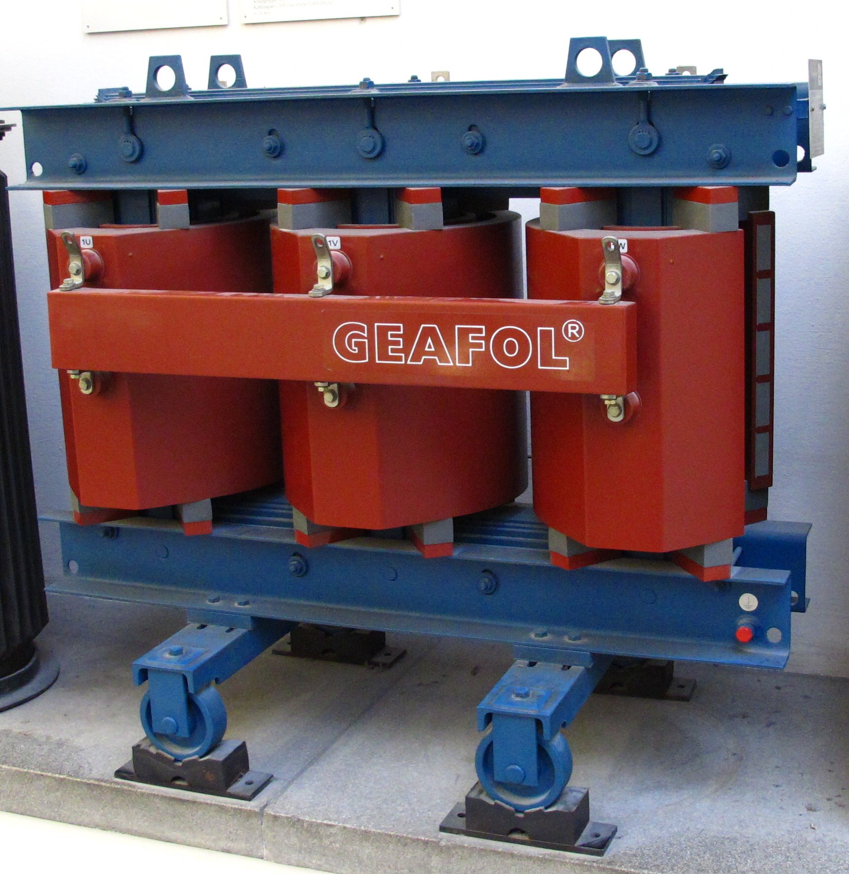 Cast resin dry-type transformer (local distribution transformer, three-phase transformer) Due to the fire hazard and possible pollution of the groundwater by the transformer oil, many smaller oil transformers are replaced by cast resin dry-type transformers. The high-voltage winding is made of aluminum foils that have been cast with silica glass filled epoxy resin under vacuum. The low-voltage winding is made of aluminum tape and was glued with surface adhesive. The mechanical fixture of the transformer is insulating the impact sound due to magnetostriction. Manufacturer: Transformatoren Union AG, Nuremberg, 1986 Power: 100 kVA Upper voltage: 10 kV Lower voltage: 400 V Connection symbol: Dyn 5